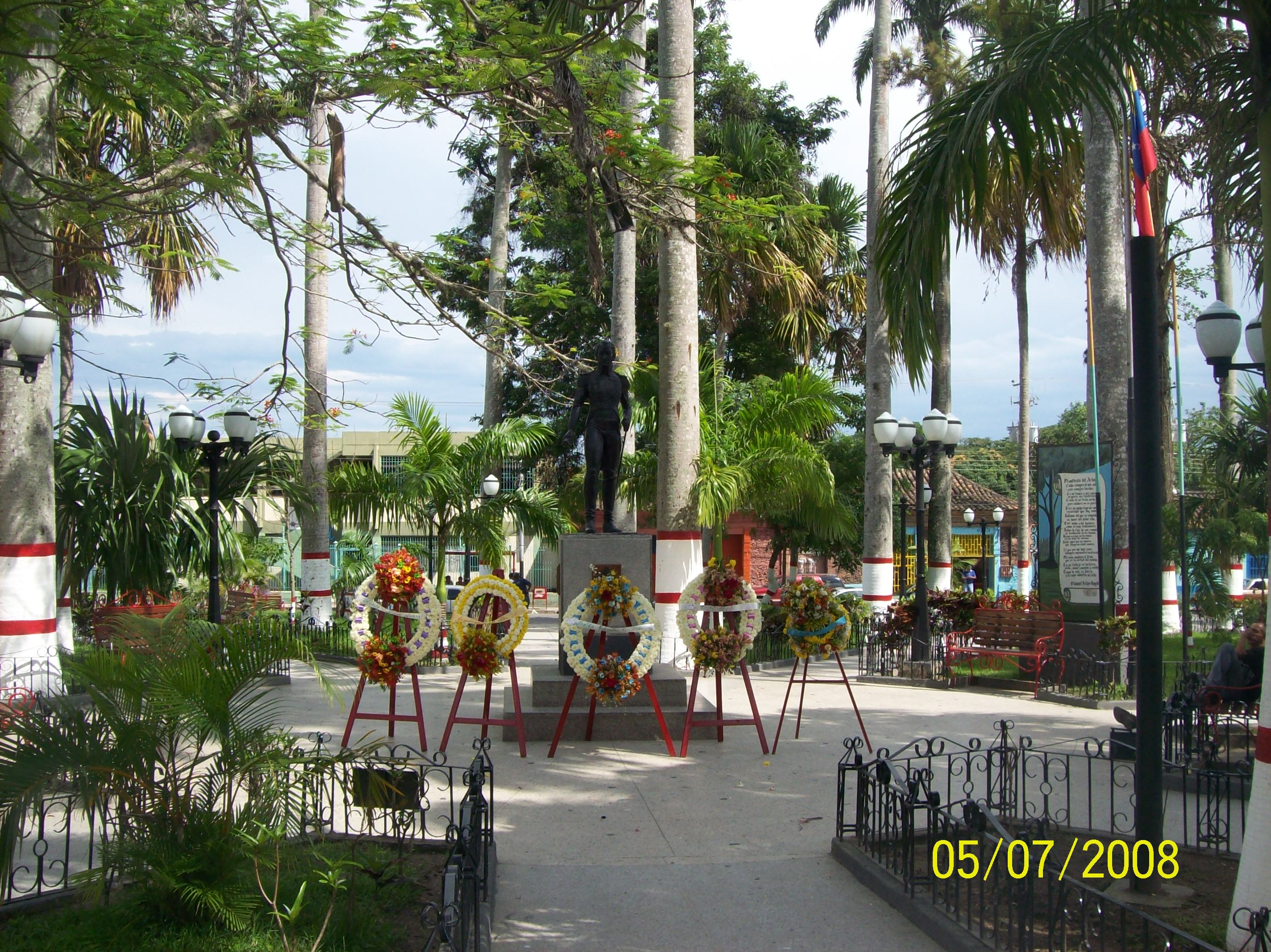 Bolívar square of Urachiche, Yaracuy state. Venezuela